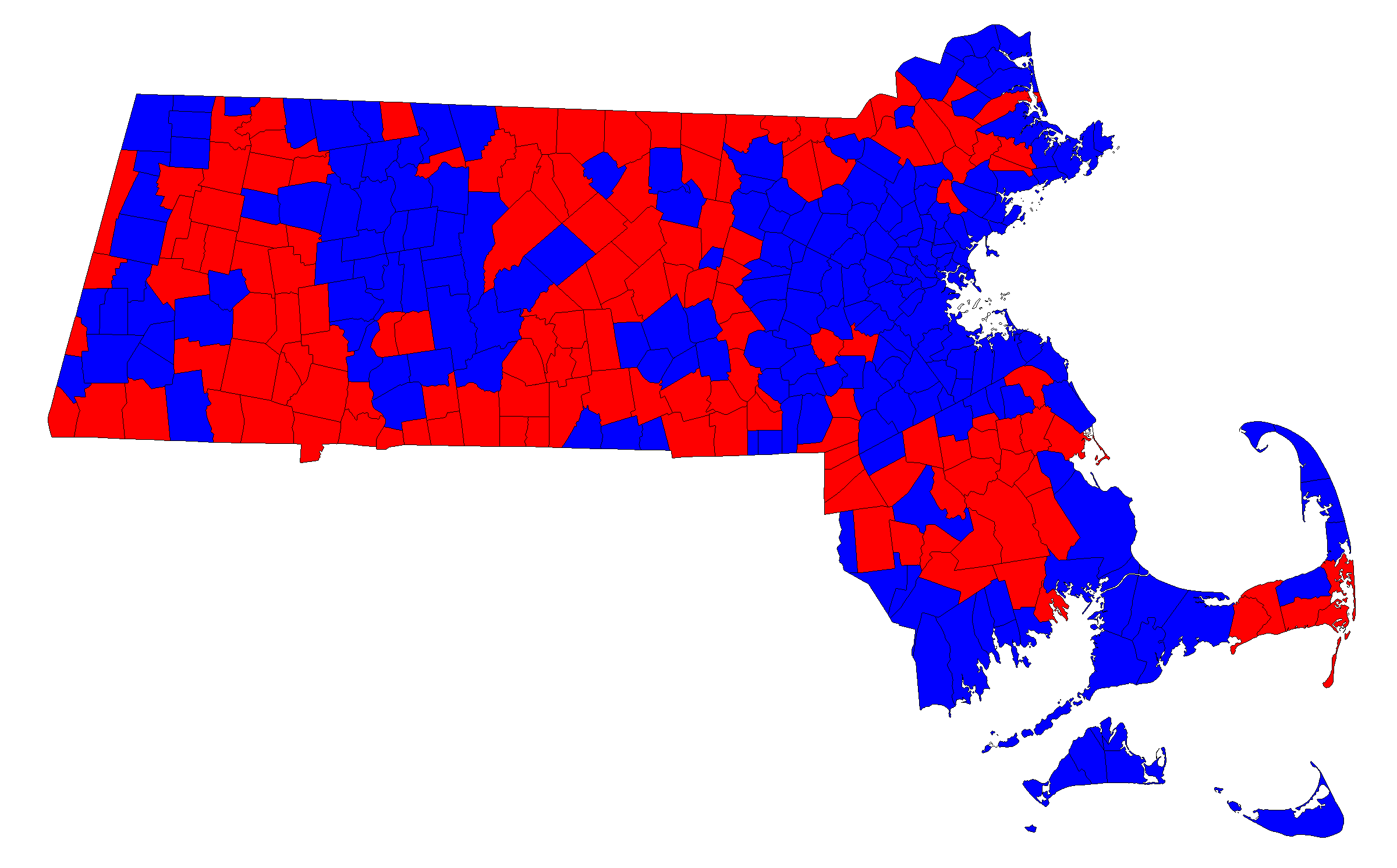 Results of the 1990 United States Senate election in Massachusetts. Towns in blue won by Kerry, red by Rappaport. Data procured at